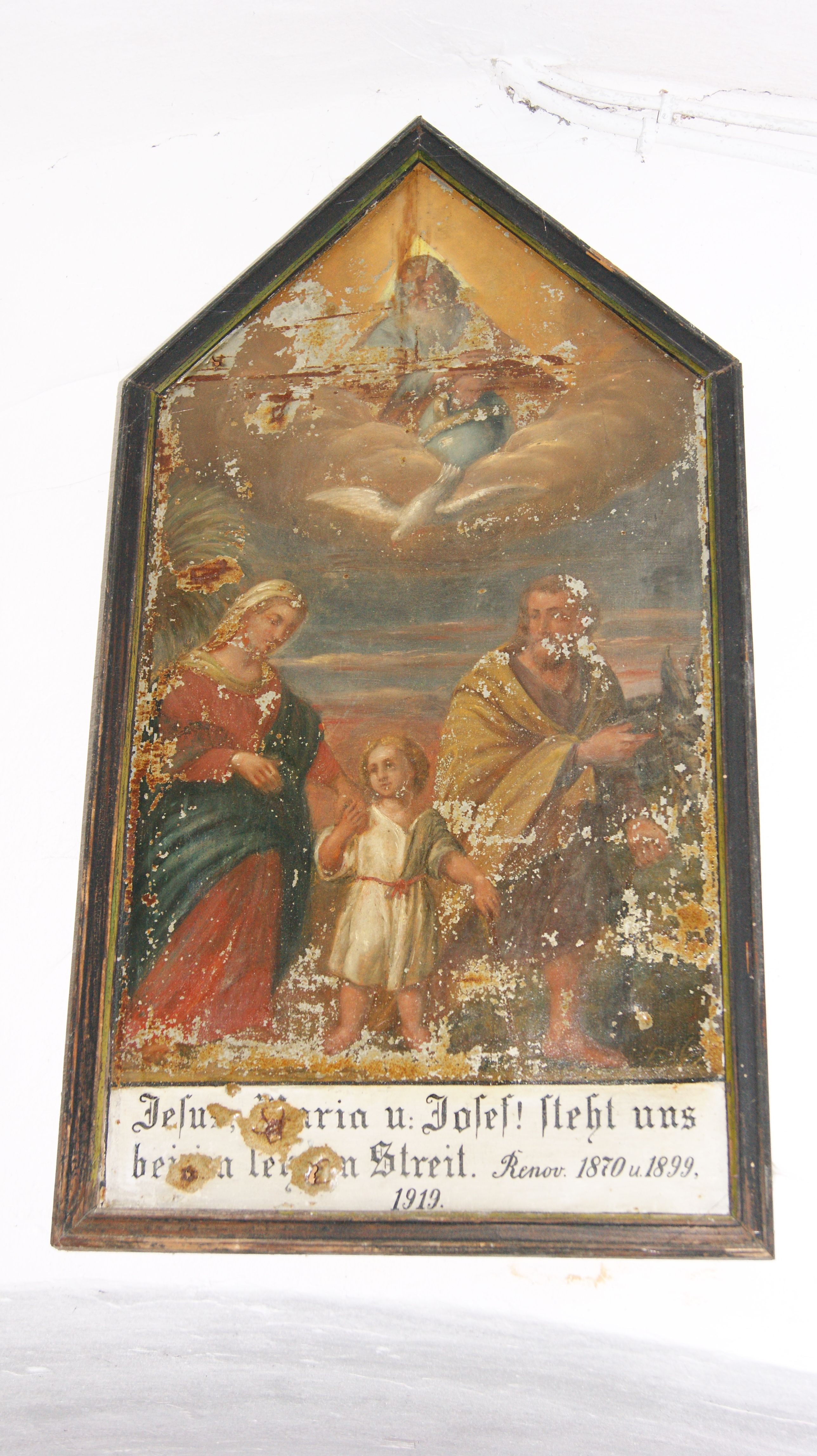 Church of St. Leonhard in St. Leonhard between Bing and Oberradin, Bludenz, Vorarlberg, Austria - Picture.